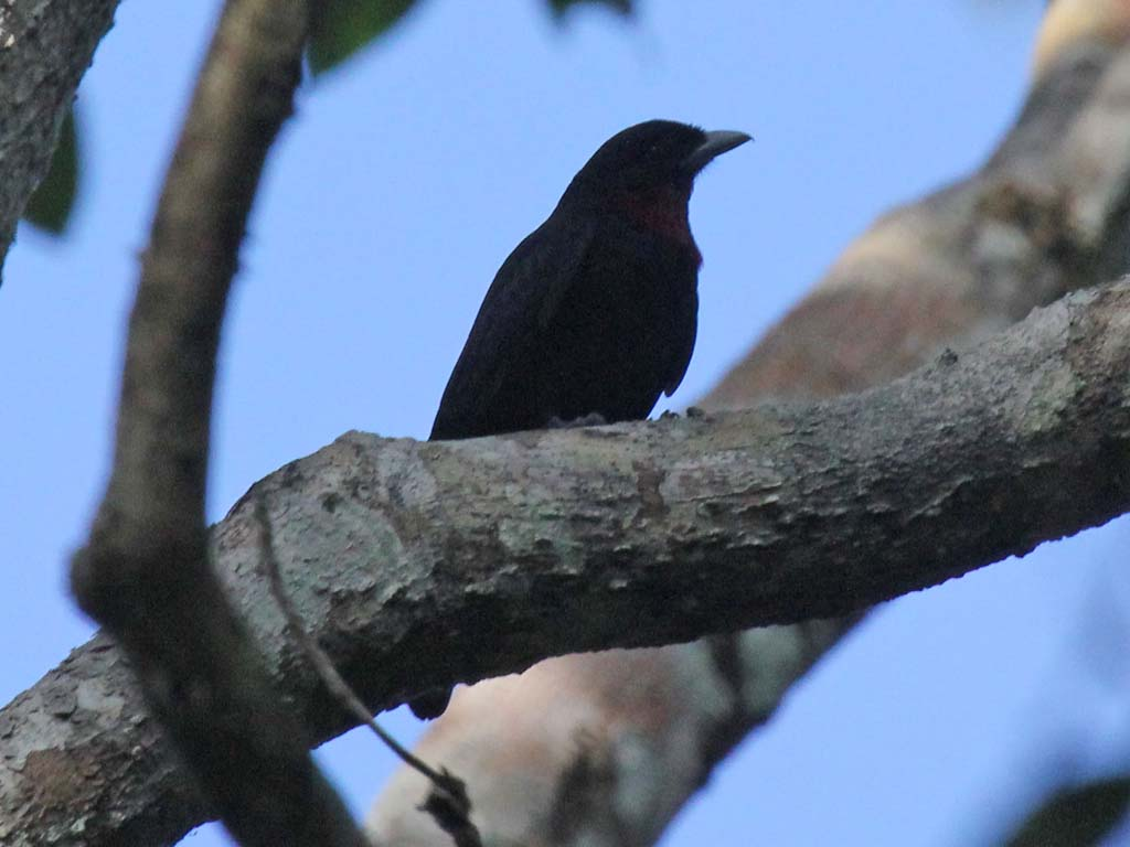 Purple-throated Fruitcrow (Querula purpurata) - Soberania National Park, Panama